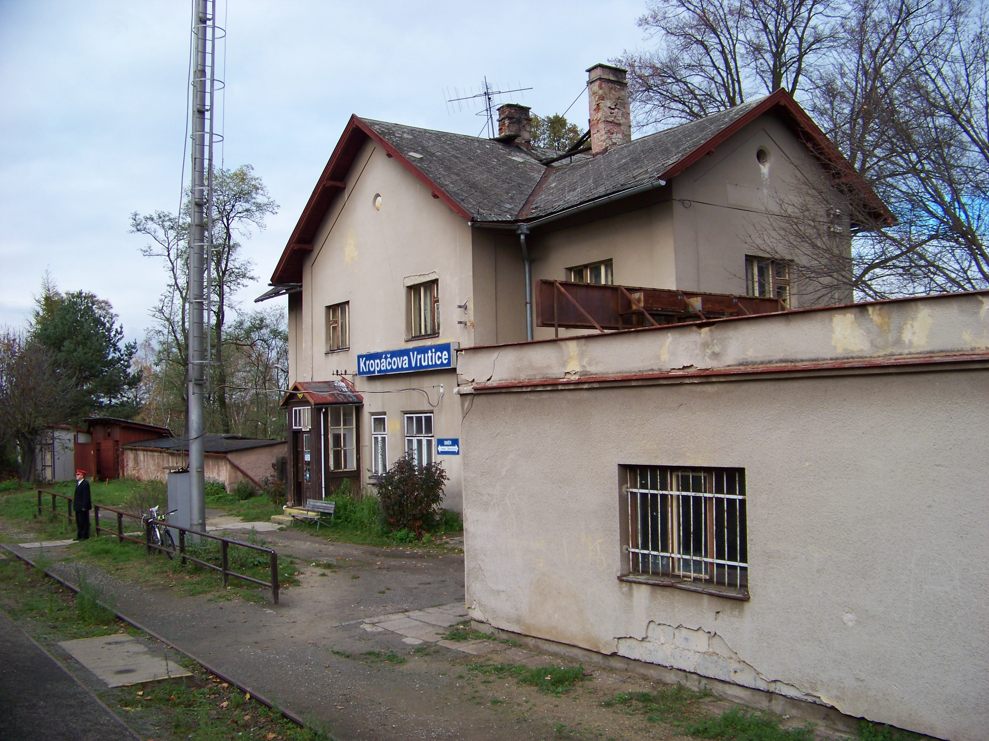 Kropáčova Vrutice-Střížovice, Mladá Boleslav District, Central Bohemian Region, Czech Republic. Train station Kropáčova Vrutice. - OpenStreetMap (Info)